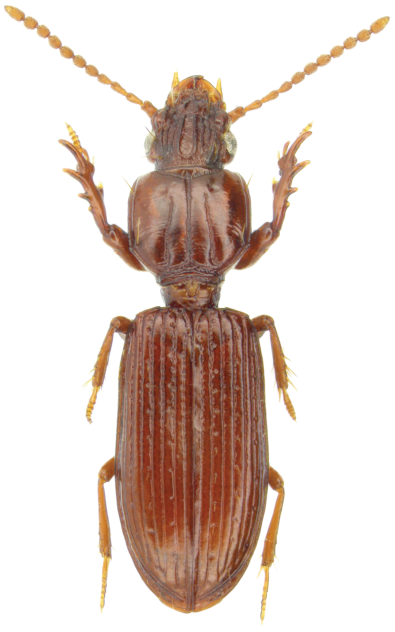 Schizogenius amphibius (Haldeman). This small clivinine belongs to a genus endemic to the Western Hemisphere and is closely related to Halocoryza which is represented, besides North America, along the east and west coast of Africa and on many islands in the eastern parts of the Indian Ocean. The adults usually live along river banks near the water and this ecological preference was hinted at by Samuel Haldeman through the species’ epithet.